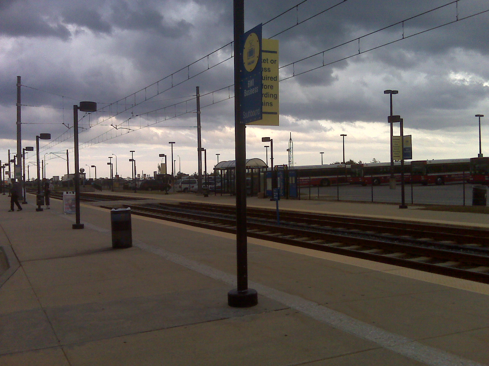 A view of the BWI Business Park station on MTA Maryland's Light Rail system south of Baltimore, Maryland, facing north and away from the parking lot.